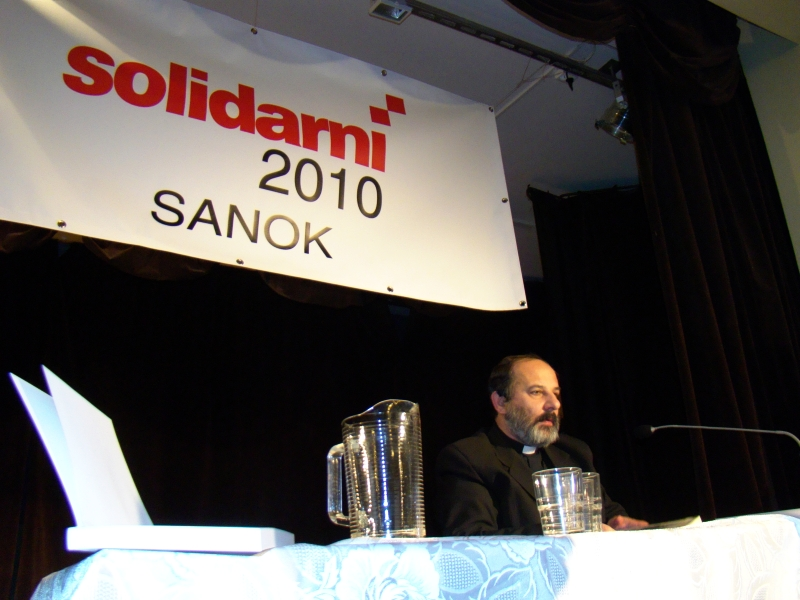 Tadeusz Isakowicz-Zaleski in Sanok